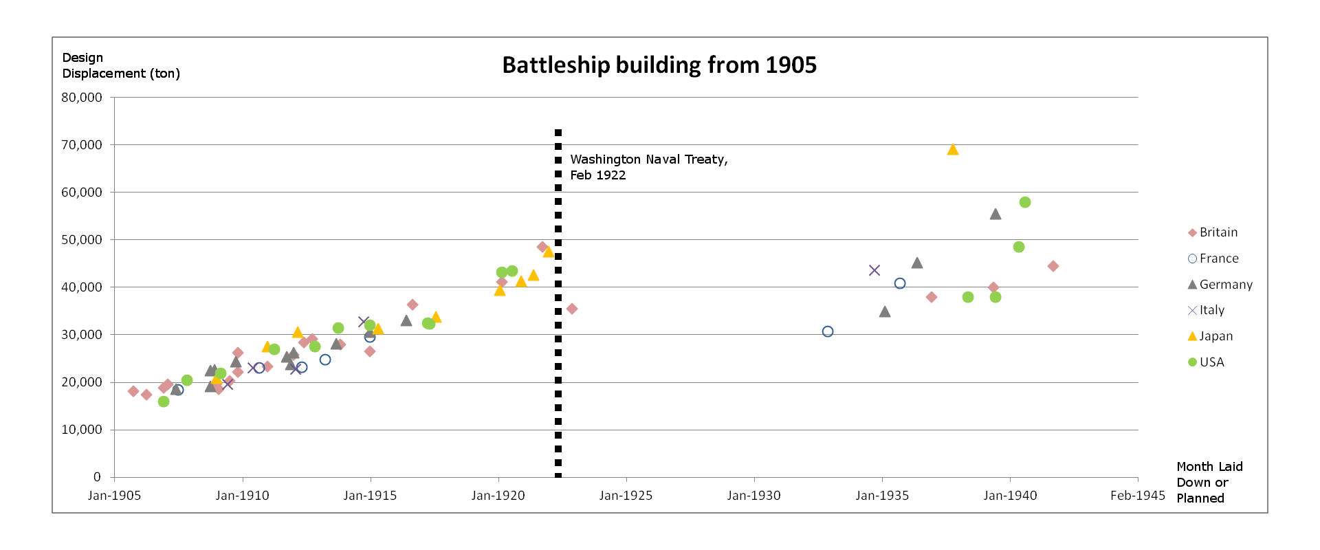 Scatter graph of the design displacement and month laid down (or planned) of all capital ship (battleship and battlecruiser) classes for 6 leading naval nations from 1905 to 1945, showing the impact of the Washington Naval Treaty. Data is taken from Breyer, Siegfried (1973). Battleships and Battlecruisers of the World, 1905–1970. London: Macdonald and Jane's. ISBN 0-356-04191-3. Data prepared in Microsoft Excel and then finishing touches added in GIMP.